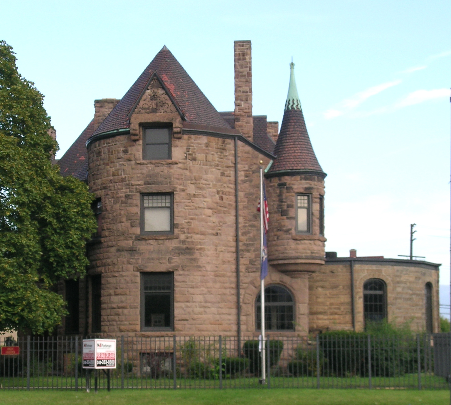 William H. Wells House on Jefferson Avenue — in Detroit, Michigan. 1889 Romanesque Revival style stone house - on the National Register of Historic Places.